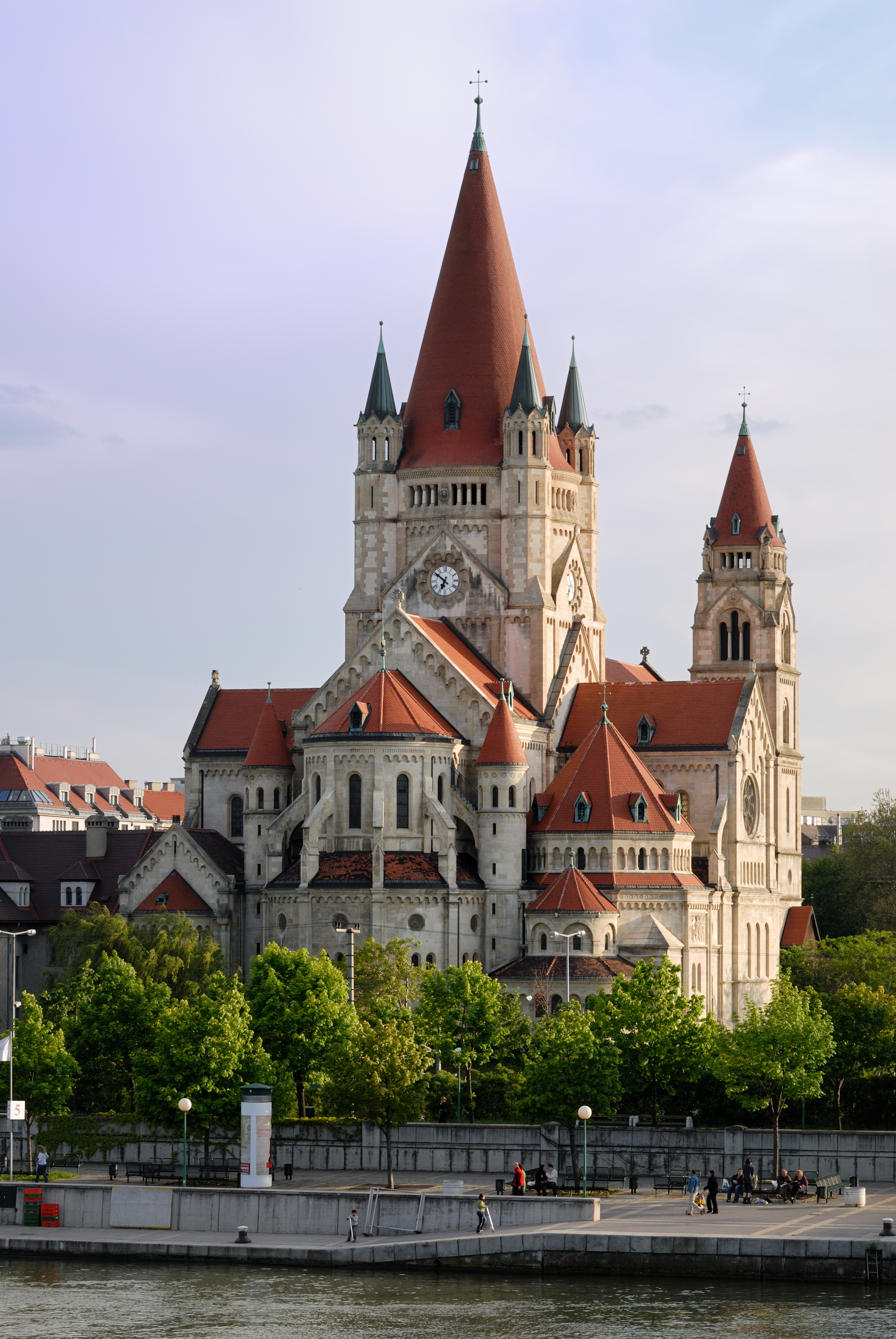 St. Francis of Assisi Church, Vienna